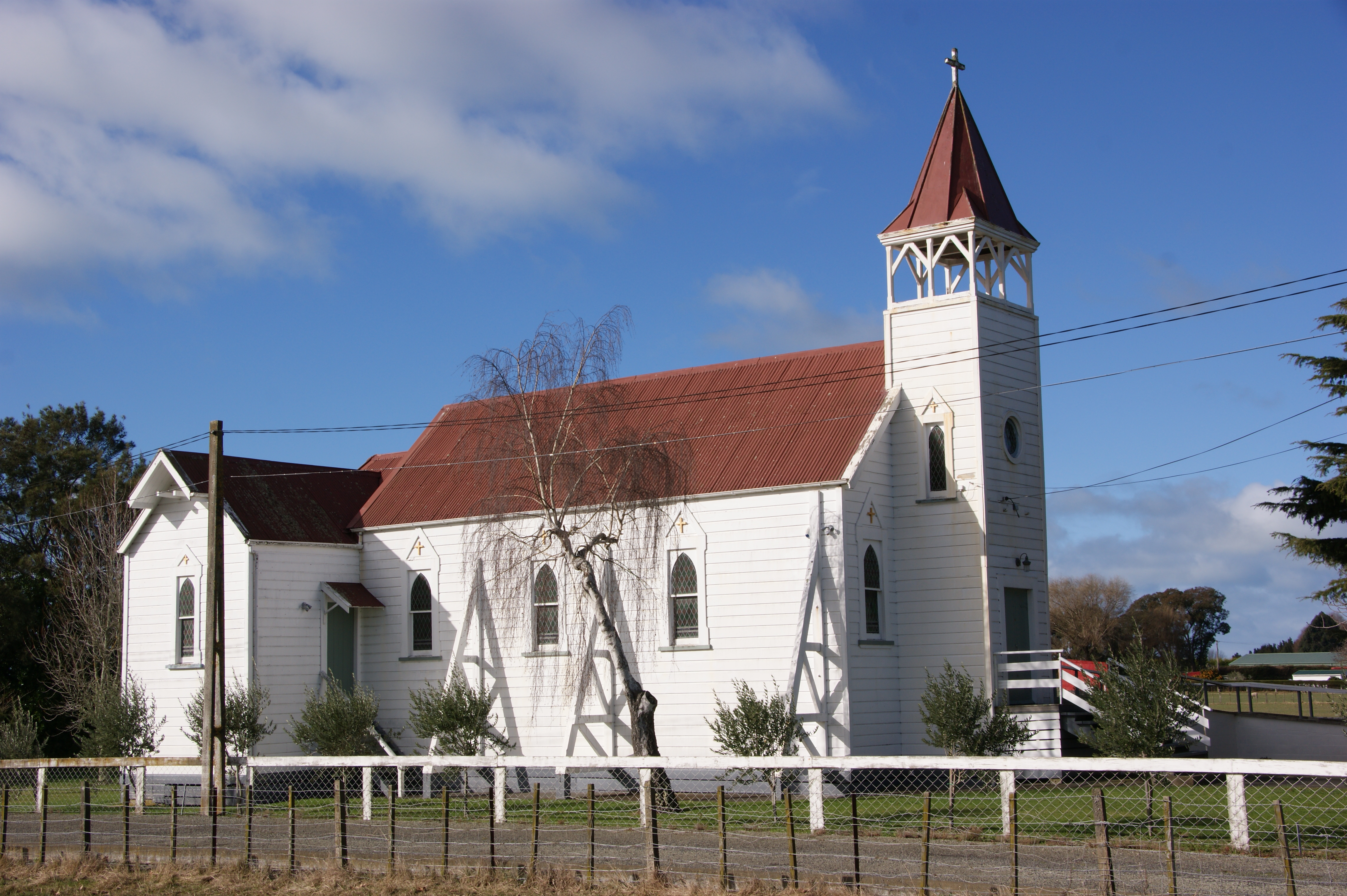 former catholic church in Clive, New Zealand. New Zealand Historic Places Trust Register number: 1031.